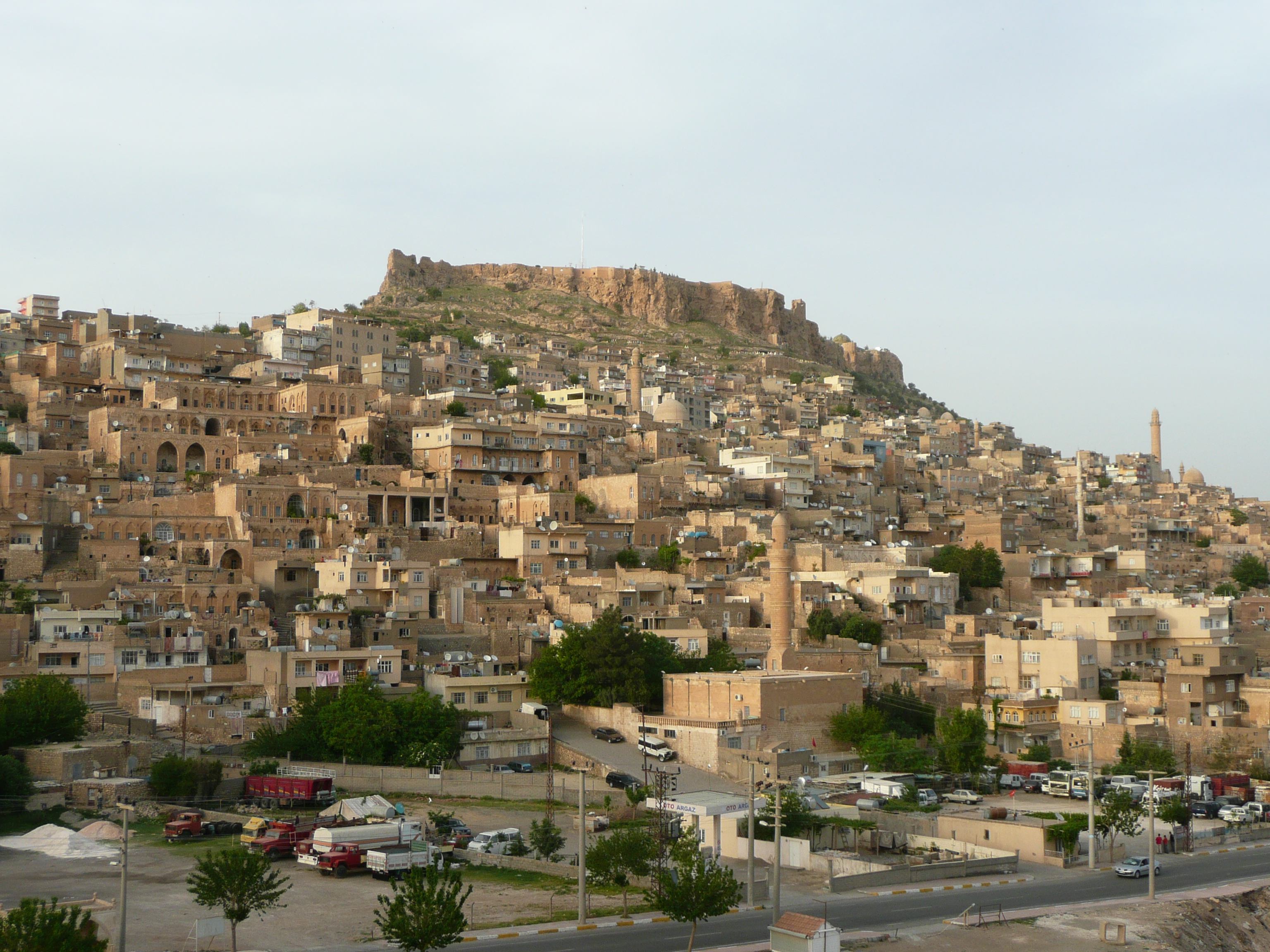 Photographs from Mardin, Turkey